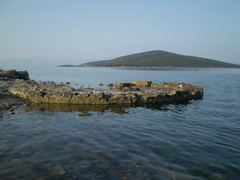 Paleochristian ruins in Paliomagaza